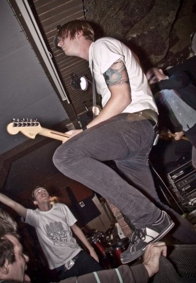 Matej Hoťka